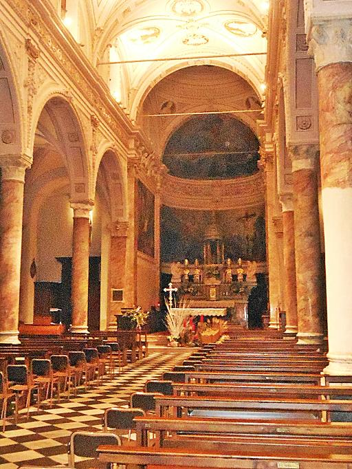 the nave